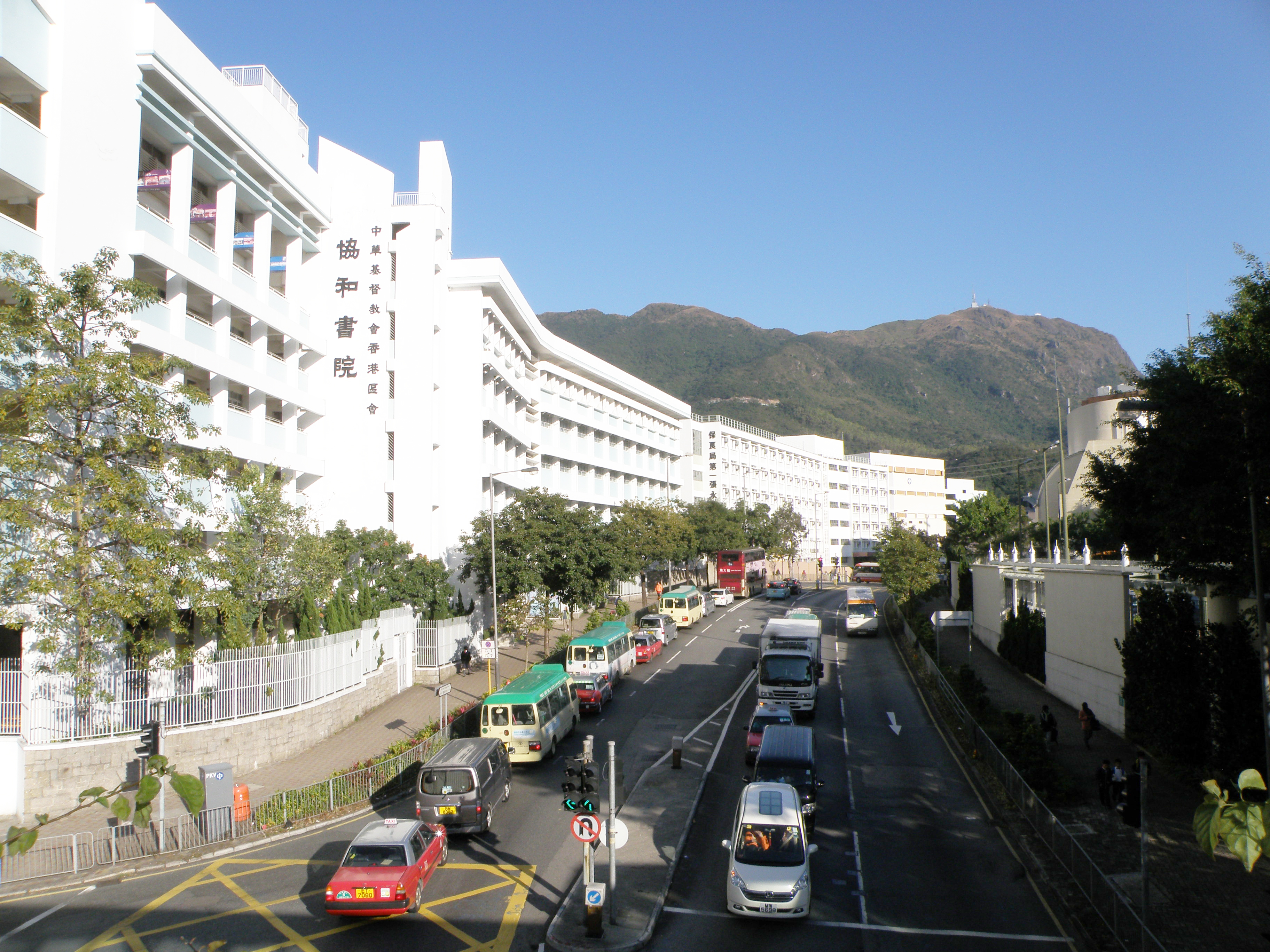 Po Kong Village Road in Tsz Wan Shan, Hong Kong.